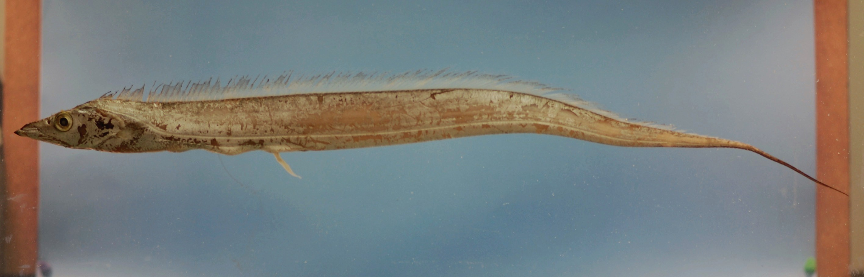 Trichiurus lepturus from the Gulf of Mexico